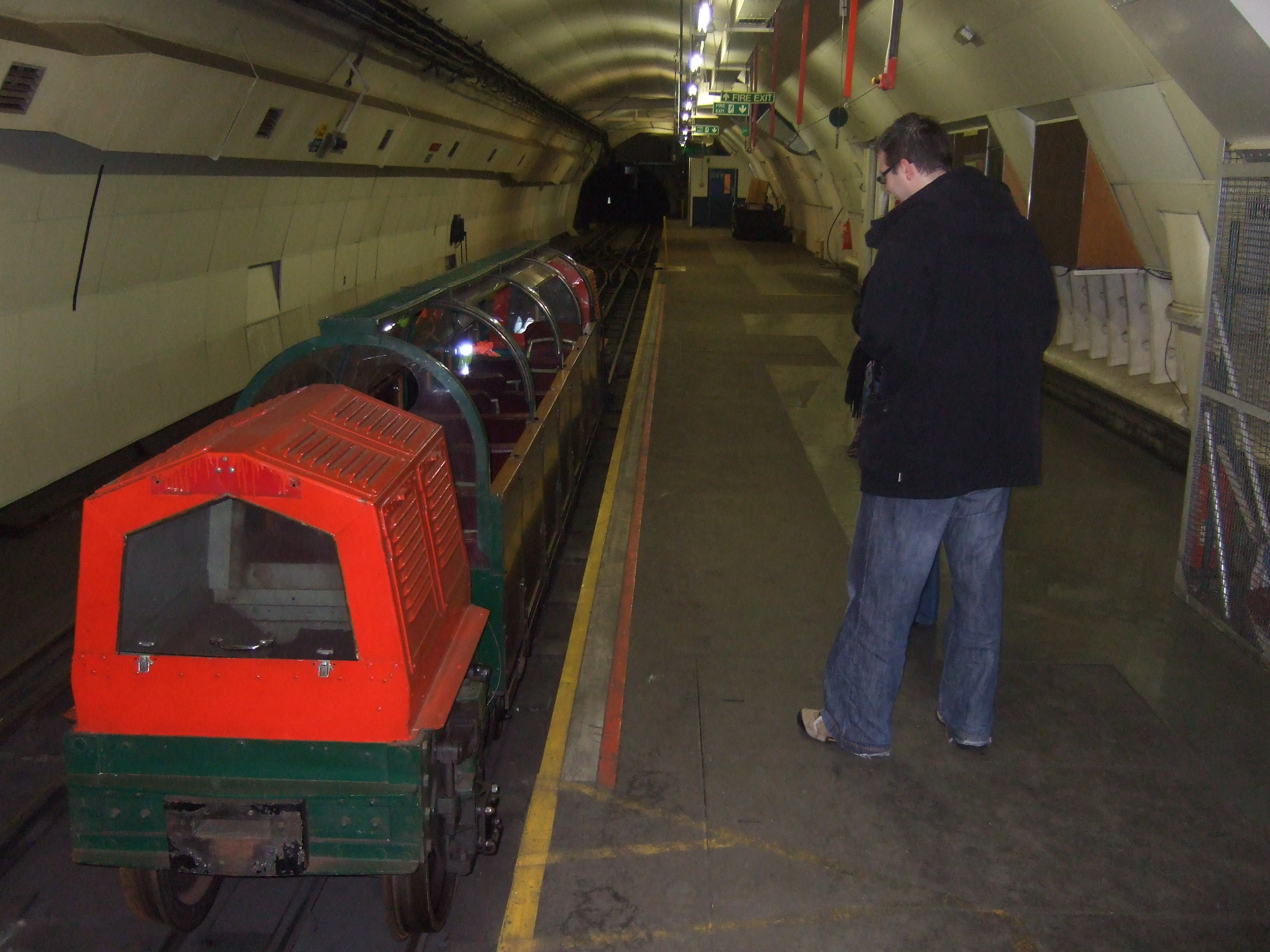 A picture of the VIP passenger car that would have been coupled to the battery locomotive to take passengers through the tunnels. Converted from one of the working locomotives. Pictured on the underground track beneath London, part of the London Post Office Railway.